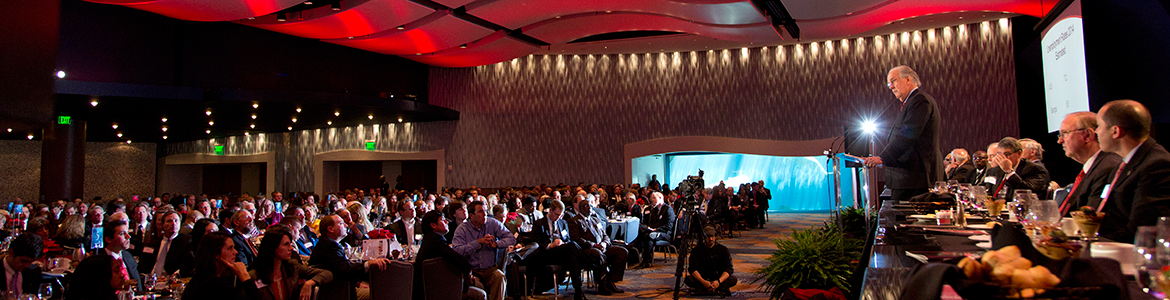 UGA President Emeritus Charles B. Knapp delivers the economic forecast for 2014 to regional business leaders at the Georgia Economic Outlook Series event held on Dec. 11 at the Georgia Aquarium in Atlanta, Ga.